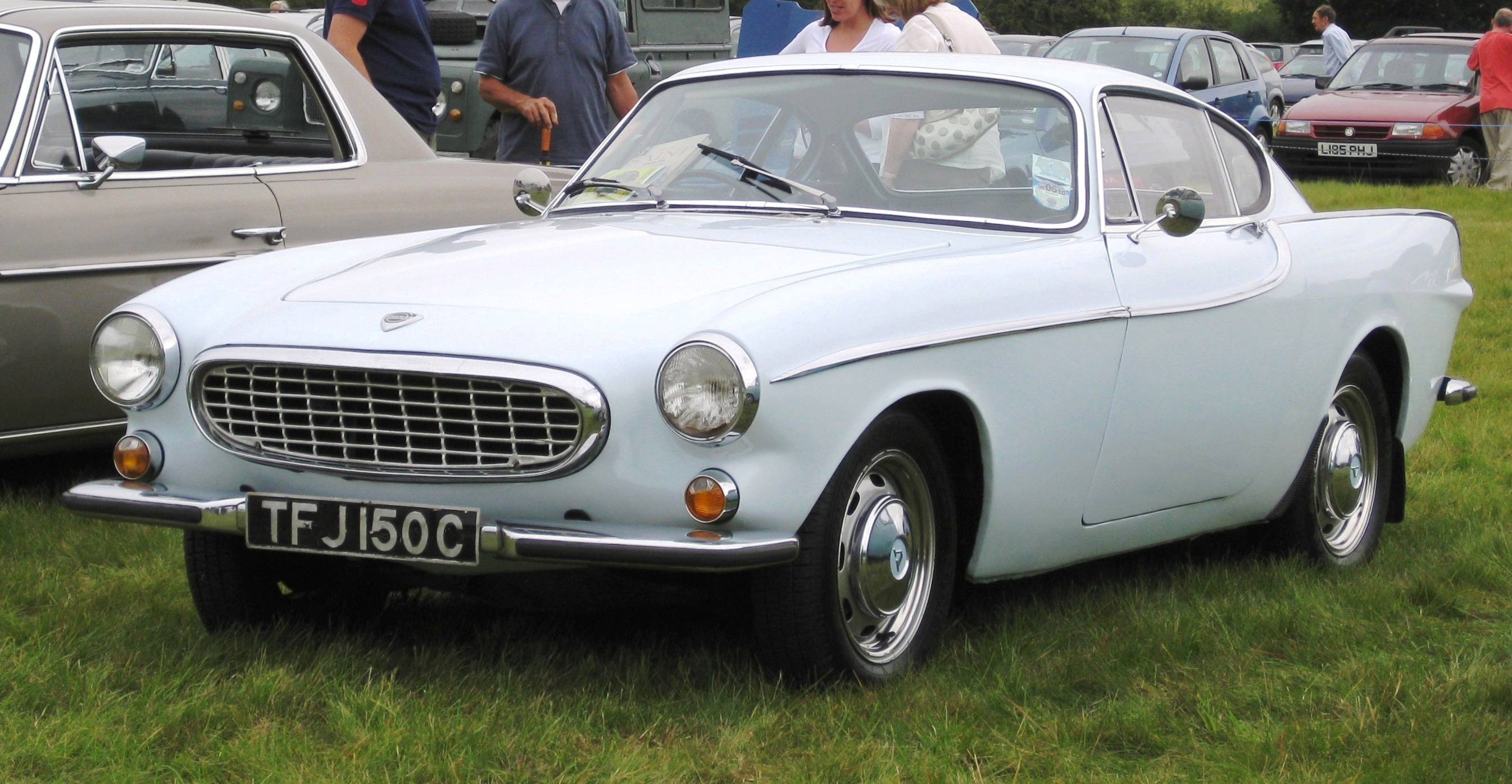 Volvo P1800 in a field in Essex between showers